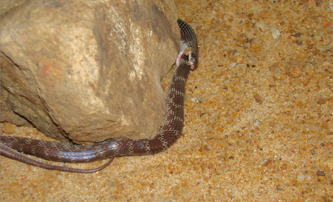 Common Krait (Bungarus caeruleus) eating an wolf snake.